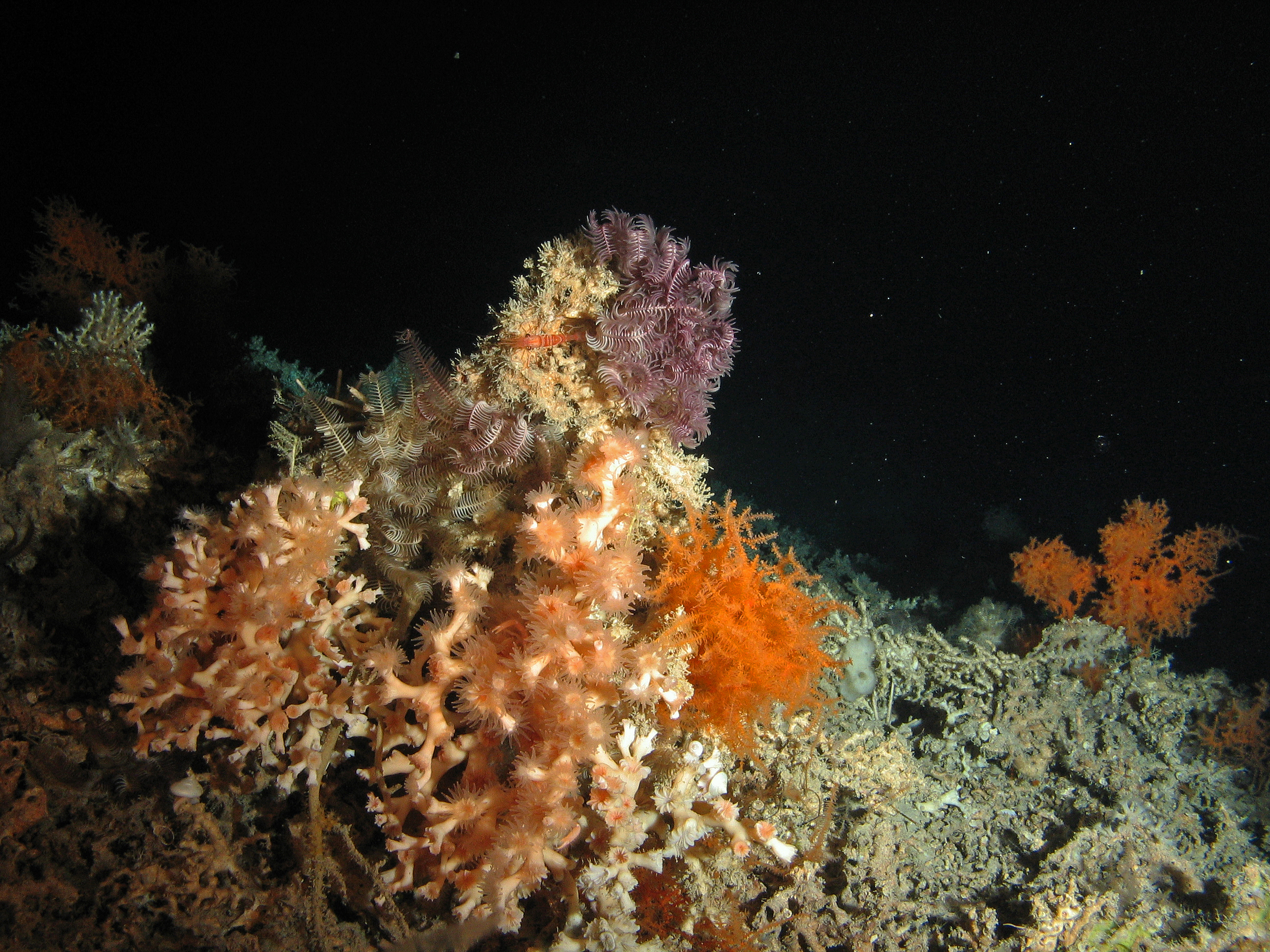 Kalt­was­serko­ral­len vor Ir­land in 750 Me­ter Was­ser­tie­fe